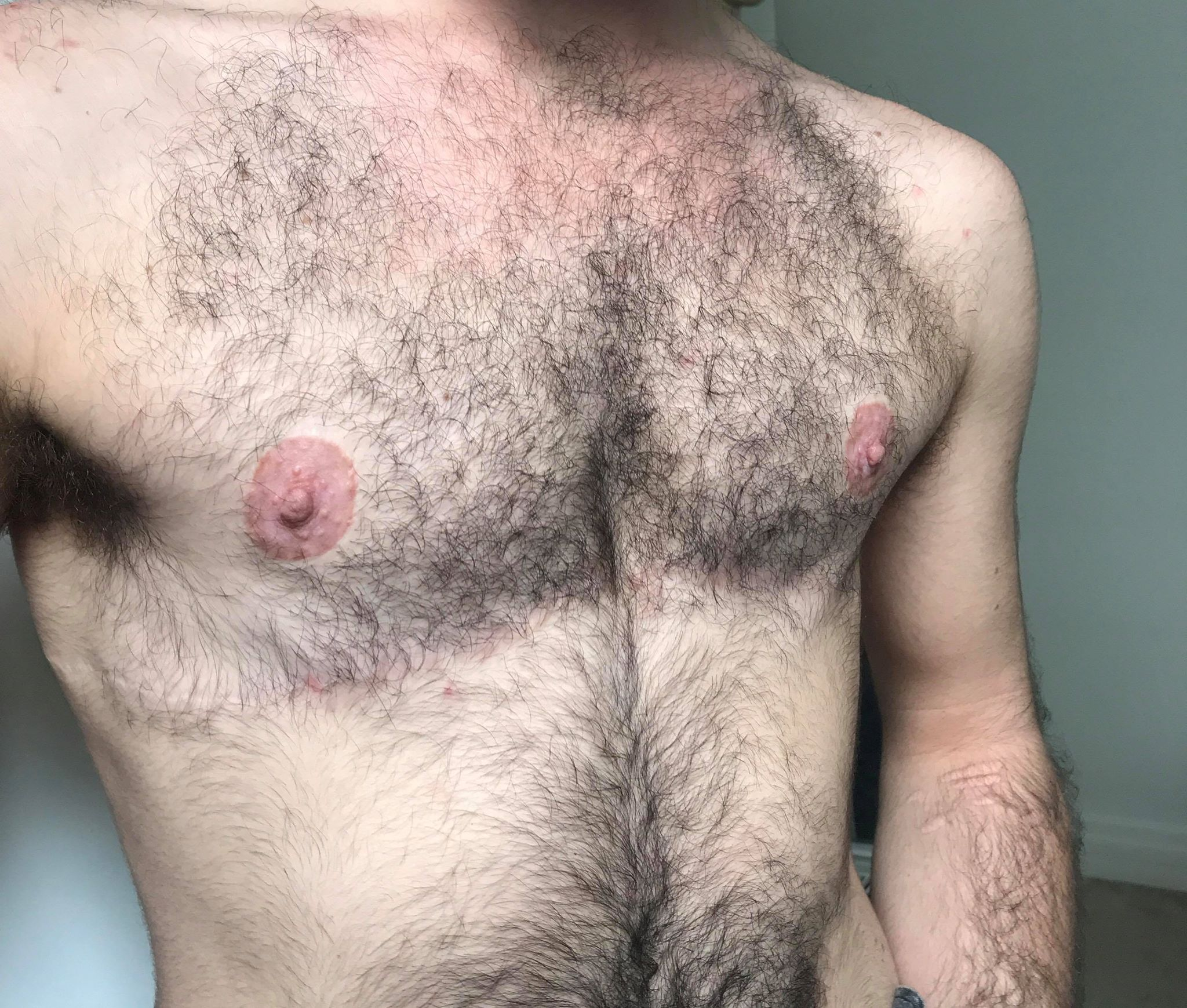 Photograph of a transgender person assigned female at birth who has undergone a double lateral incision mastectomy.